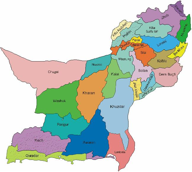 The official Map of the Districts of Balochistan Province, in southwestern Pakistan. All the current 30 districts in the province, with new designations as of 2009, are clearly indicated and labeled.